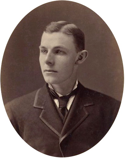 Portrait of William Stewart Halsted, Yale College class of 1874. Photograph courtesy of the Yale University Manuscripts & Archives Digital Images Database, Yale University, New Haven, CT.